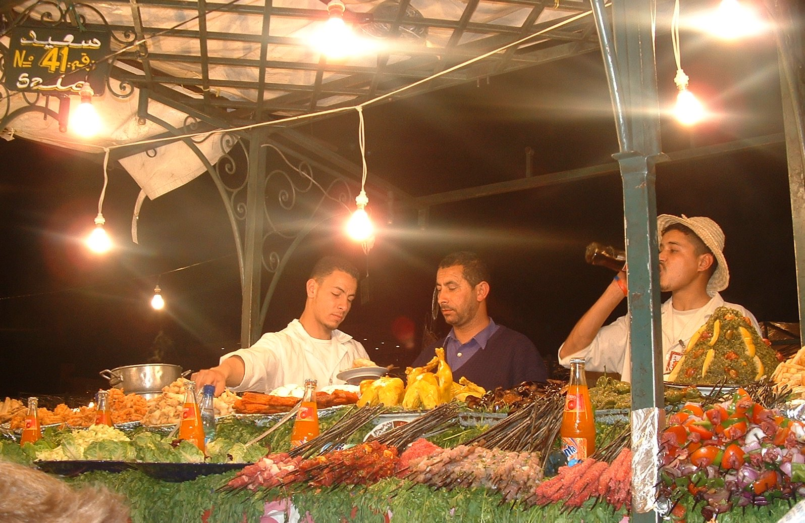 Chefs working at a food stall in the Djeema El-Fna in Marrakech, Morocco